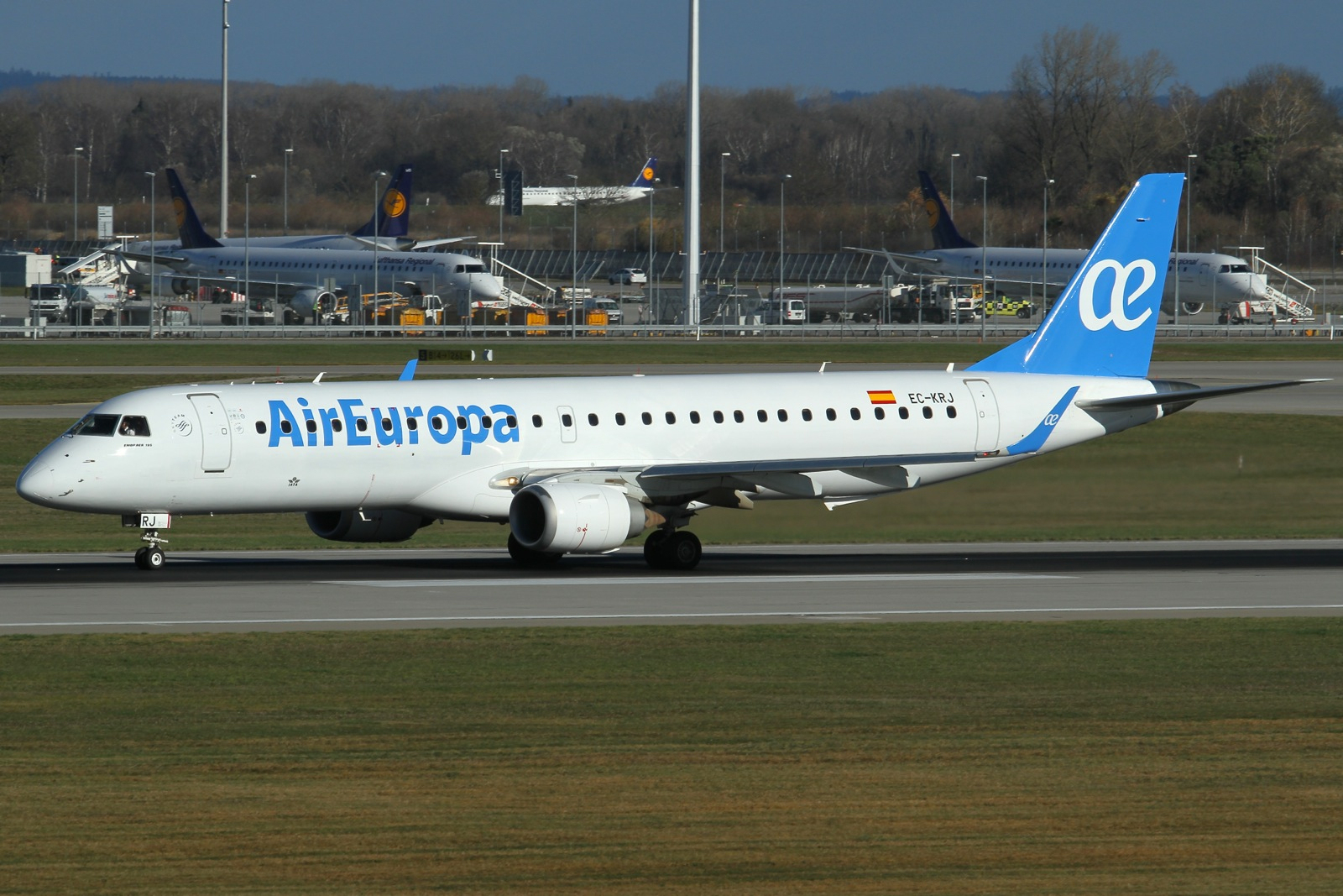 Air Europa Embraer 195 in new livery at Munich Airport